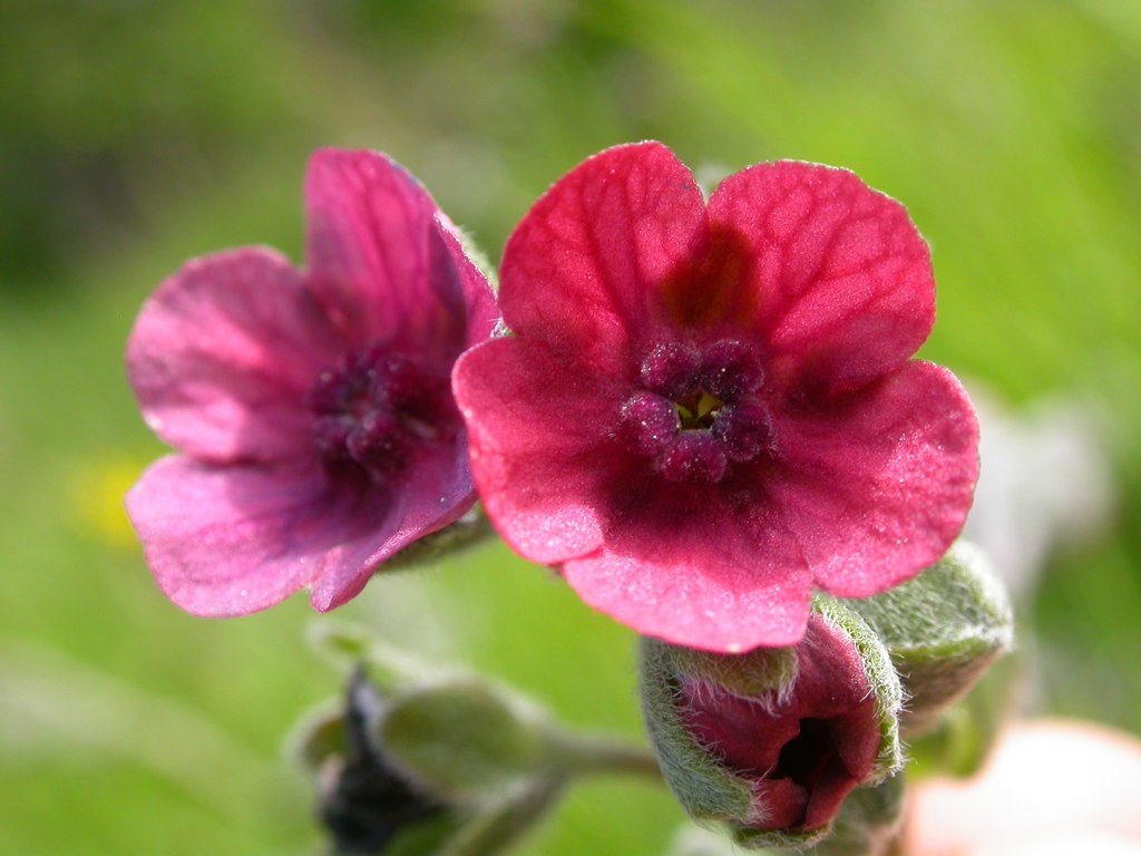 The tube, limb, and fornices are all the same reddish or brick red color.